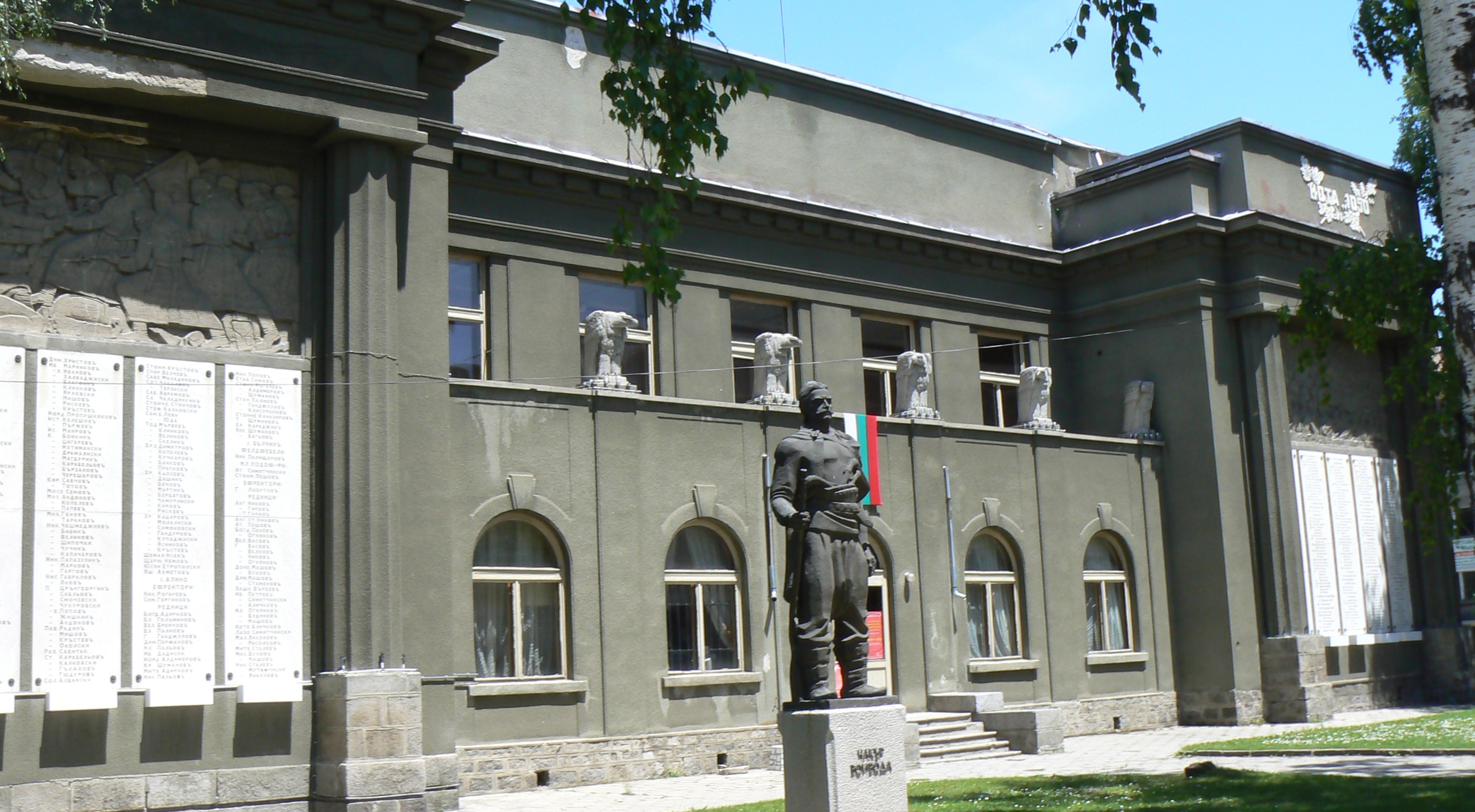 Otets Paisiy chitalishte-monument in Samokov, Bulgaria with Chakar Voyvoda statue in front